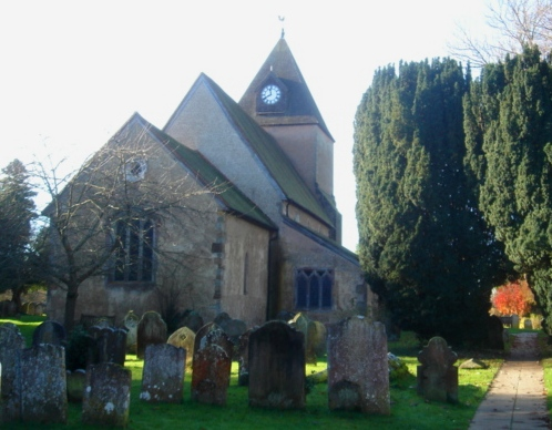 St Margaret's Church, Ifieid, West Sussex, England. The Anglican parish church of Ifield, Ifield West, Langley Green, Gossops Green and Bewbush. A 13th-century building, listed at Grade II* by English Heritage (ref #363397)